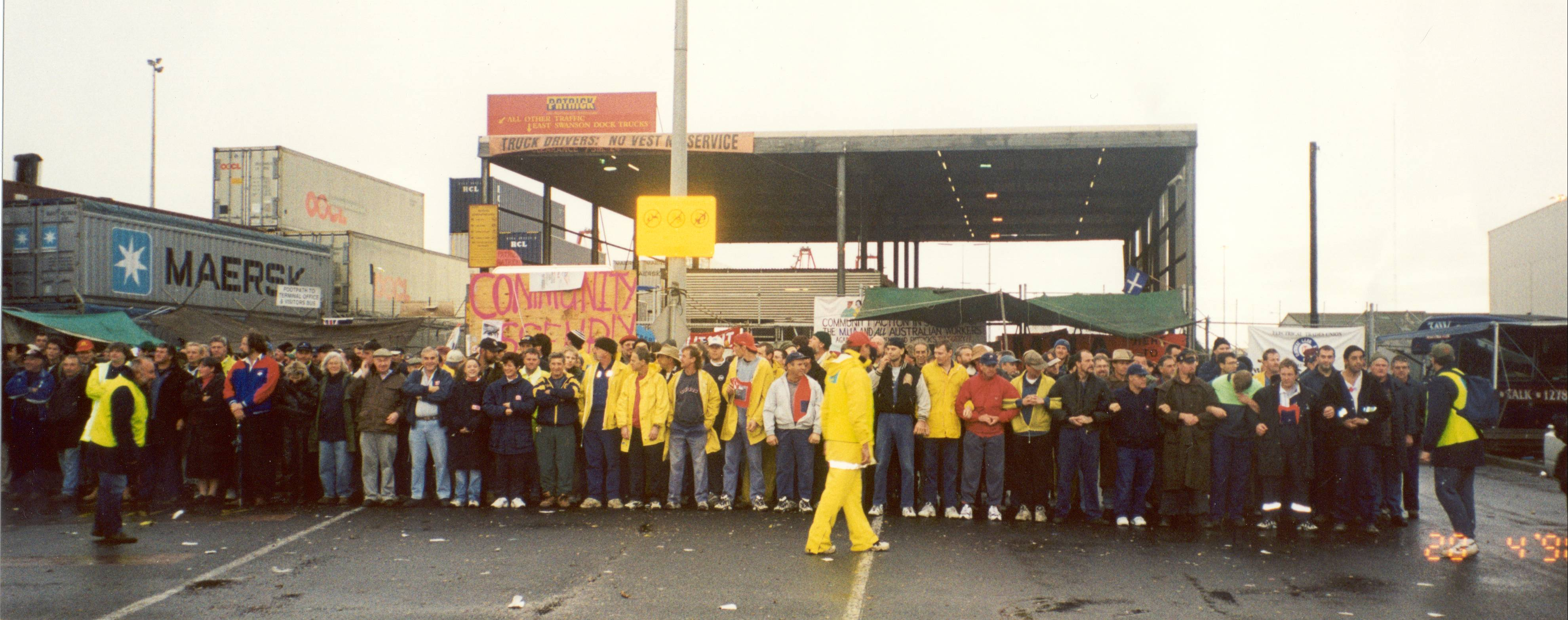 Melbourne - Swanson Dock picket line on April 20, 1998